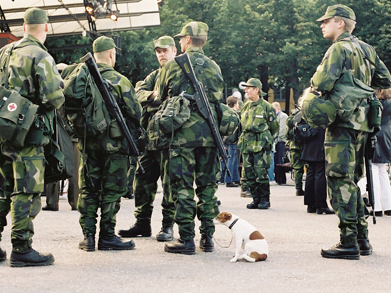 Swedish Home Guard soldiers in Kungsträdgården, Stockholm.